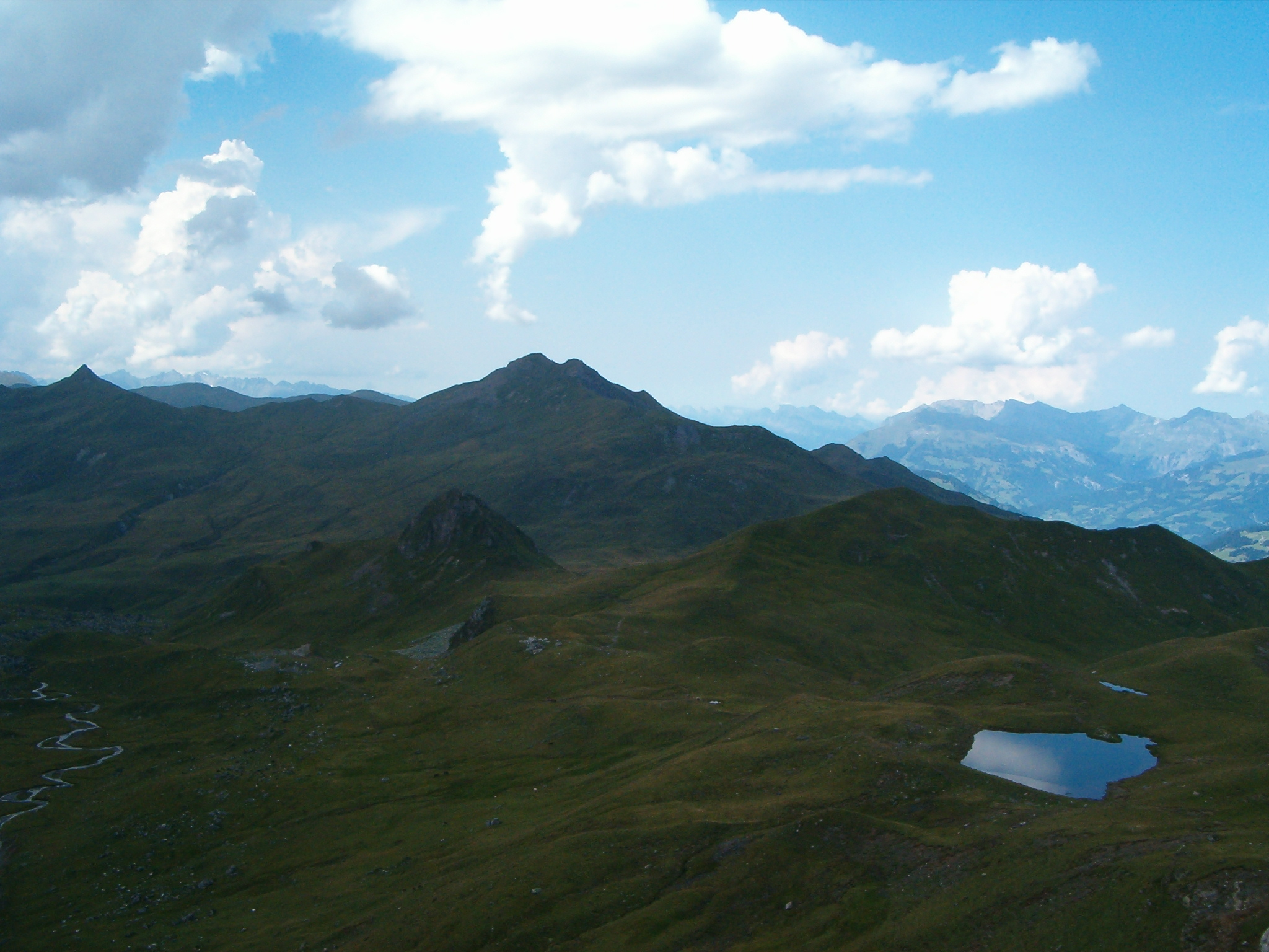 Casannapass between Langwies and Serneus